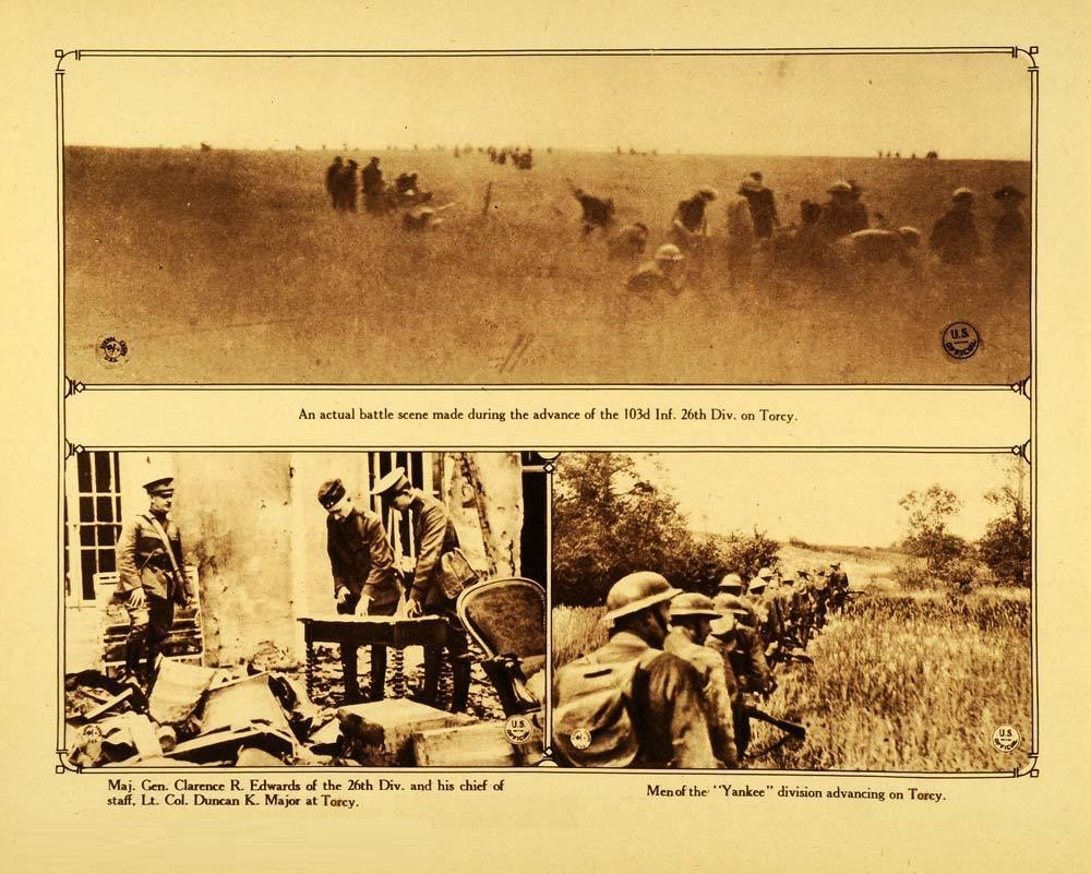 An extract of a book, showing americans troopers (26th division) during battle on Torcy-en-Valois.